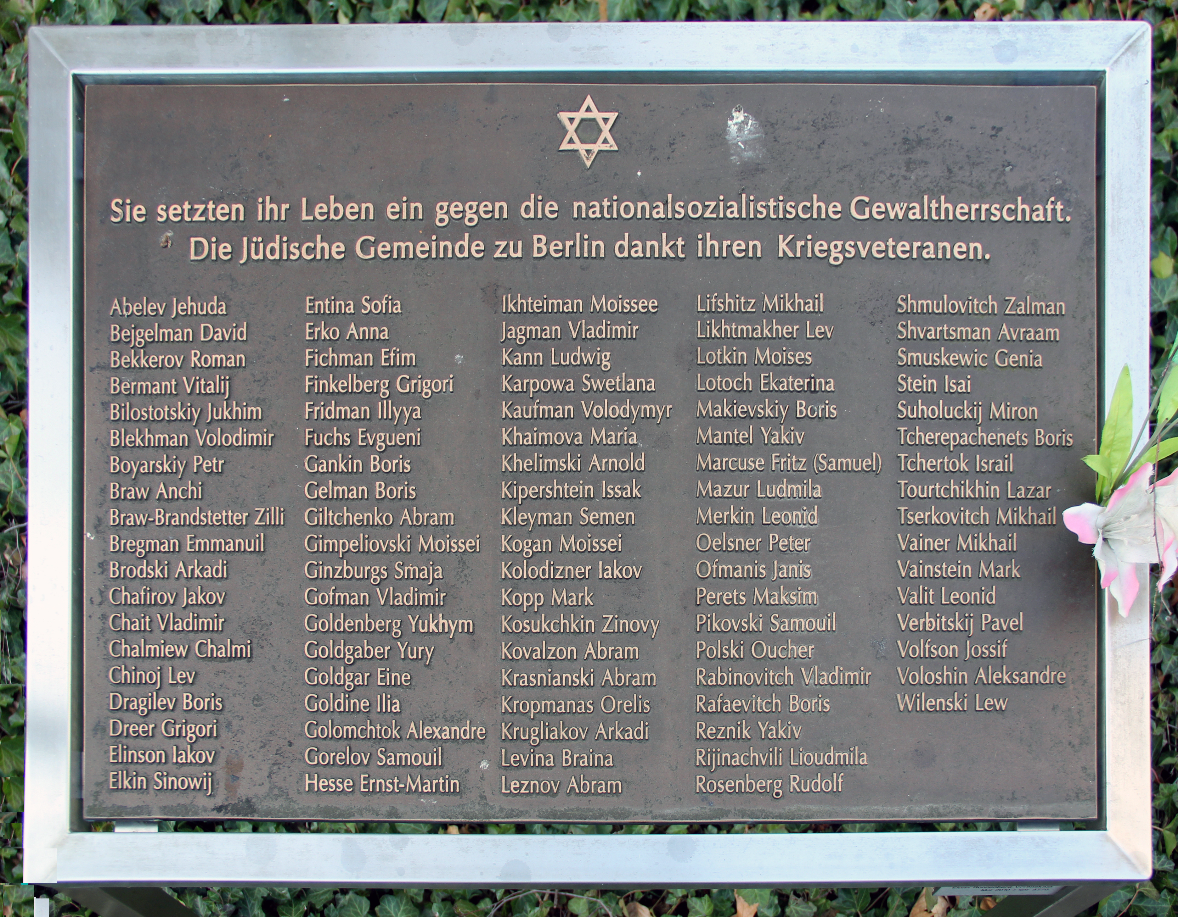 Memorial plaque, jüdische Kriegsveteranen, Fasanenstraße 79, Berlin-Charlottenburg, Deutschland